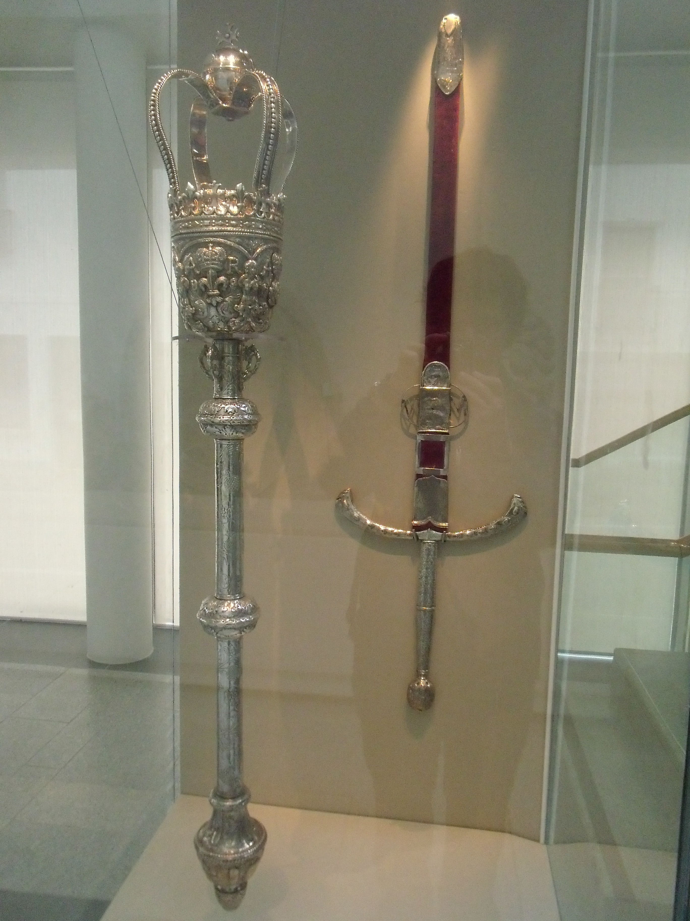 Ceremonial mace of Galway